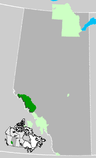 Location of Jasper National Park